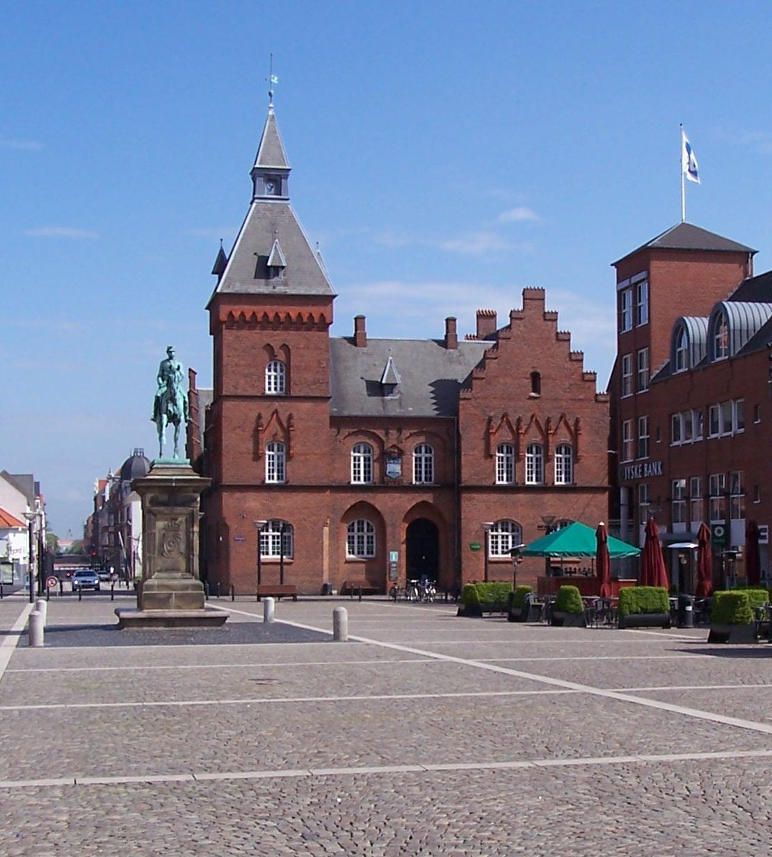 Esbjerg, Torvet (central square). Old Town Hall in centre picture. Photo by Cnyborg, May 2005. Rytterstatue av Christian IX av kunstneren Ludvig Brandstrup